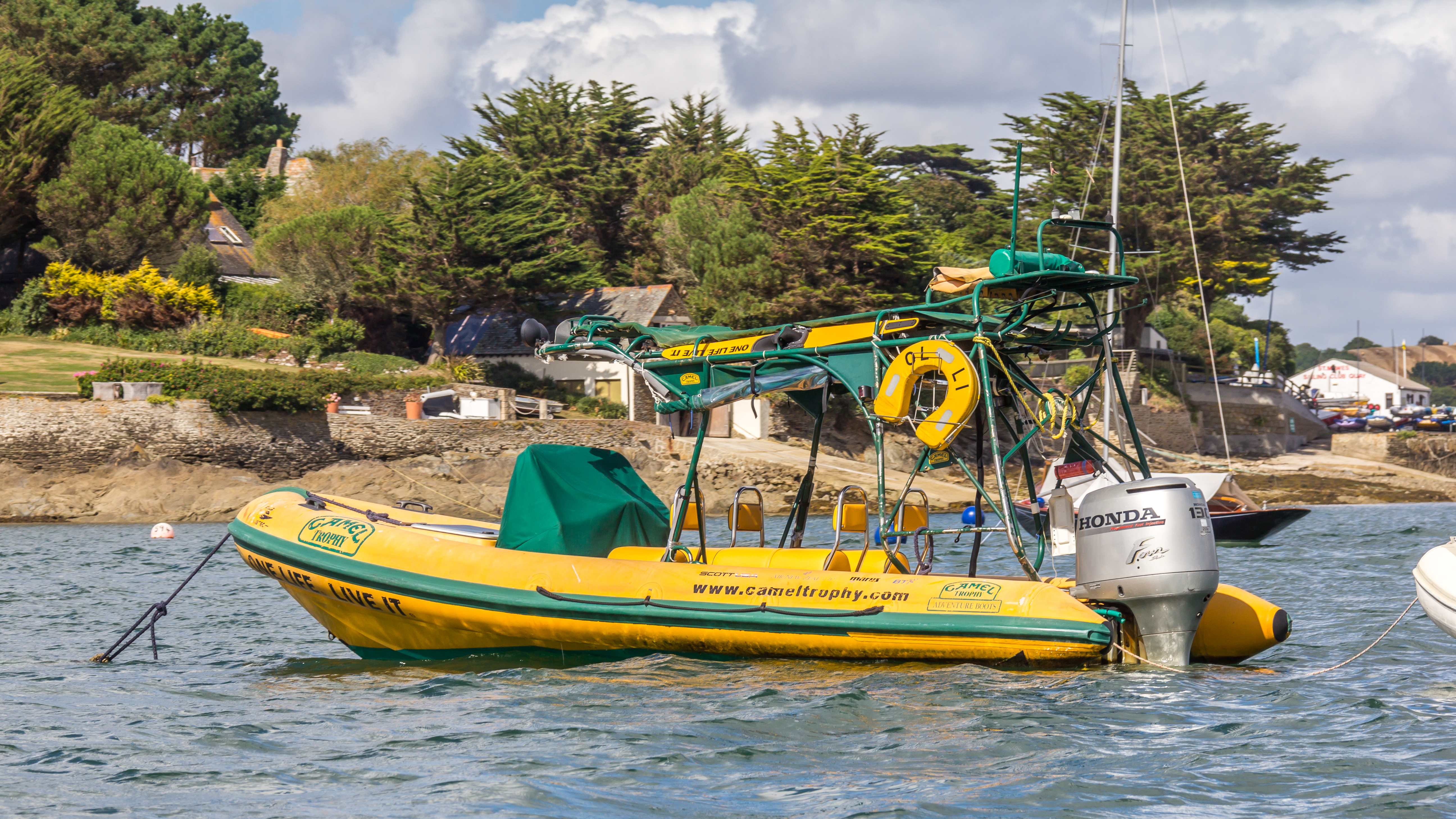 Inflatable boat of the Camel Trophy in harbour of St Mawes, Cornwall